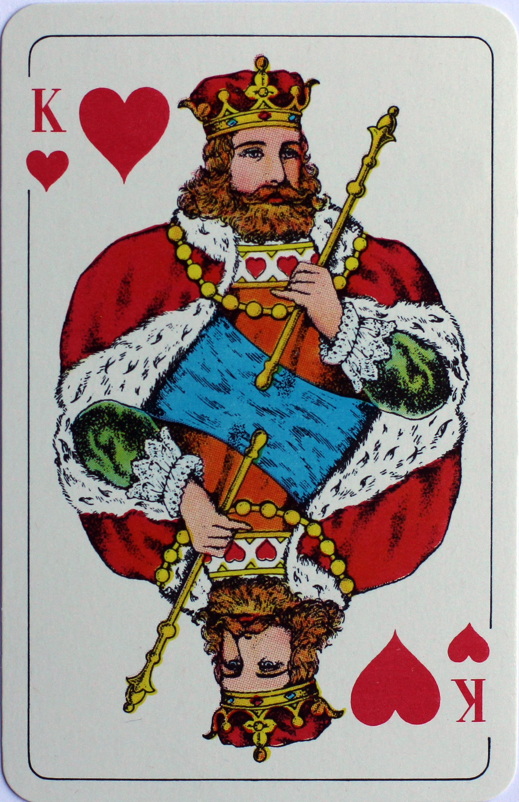 The Brús (King of Hearts) from the Icelandic game of the same name. From a 'Modern Swedish' pattern pack.